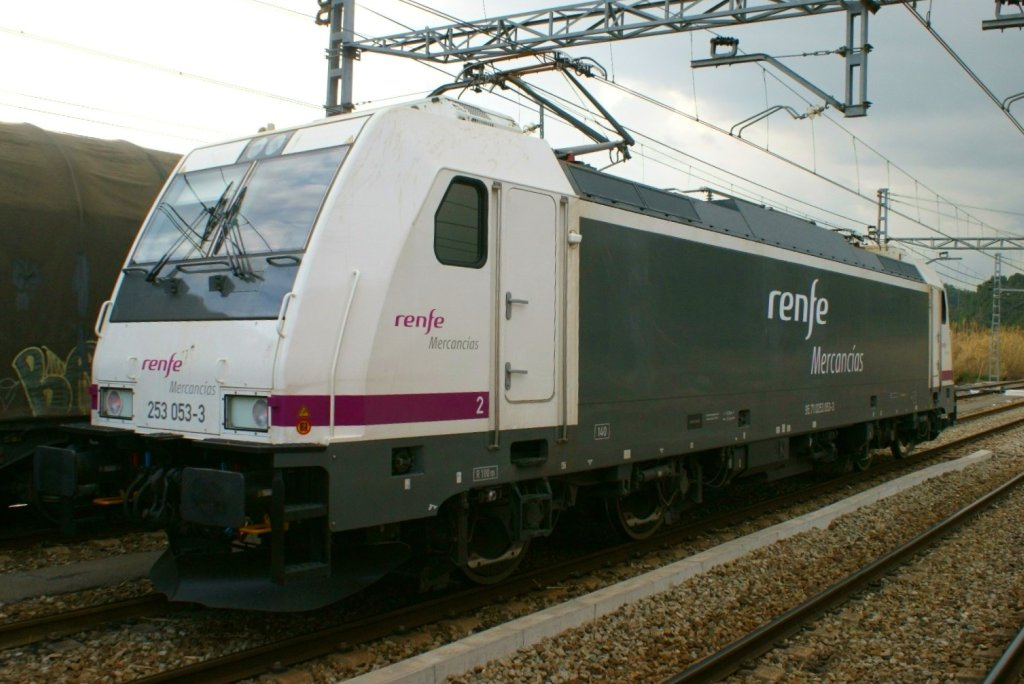 253 locomotive in Castellbisbal rail station (Spain)